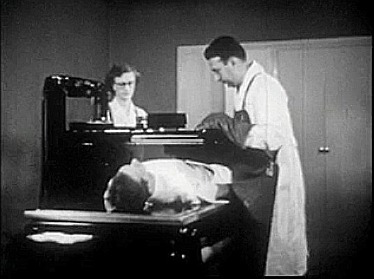 Screenshot taken from the Britannica Film at the Prelinger Archive at the 3:04 minute mark. Shows an early fluoroscope in the 1950's, used to diagnose cancer. (cropped and sharpened with GIMP)